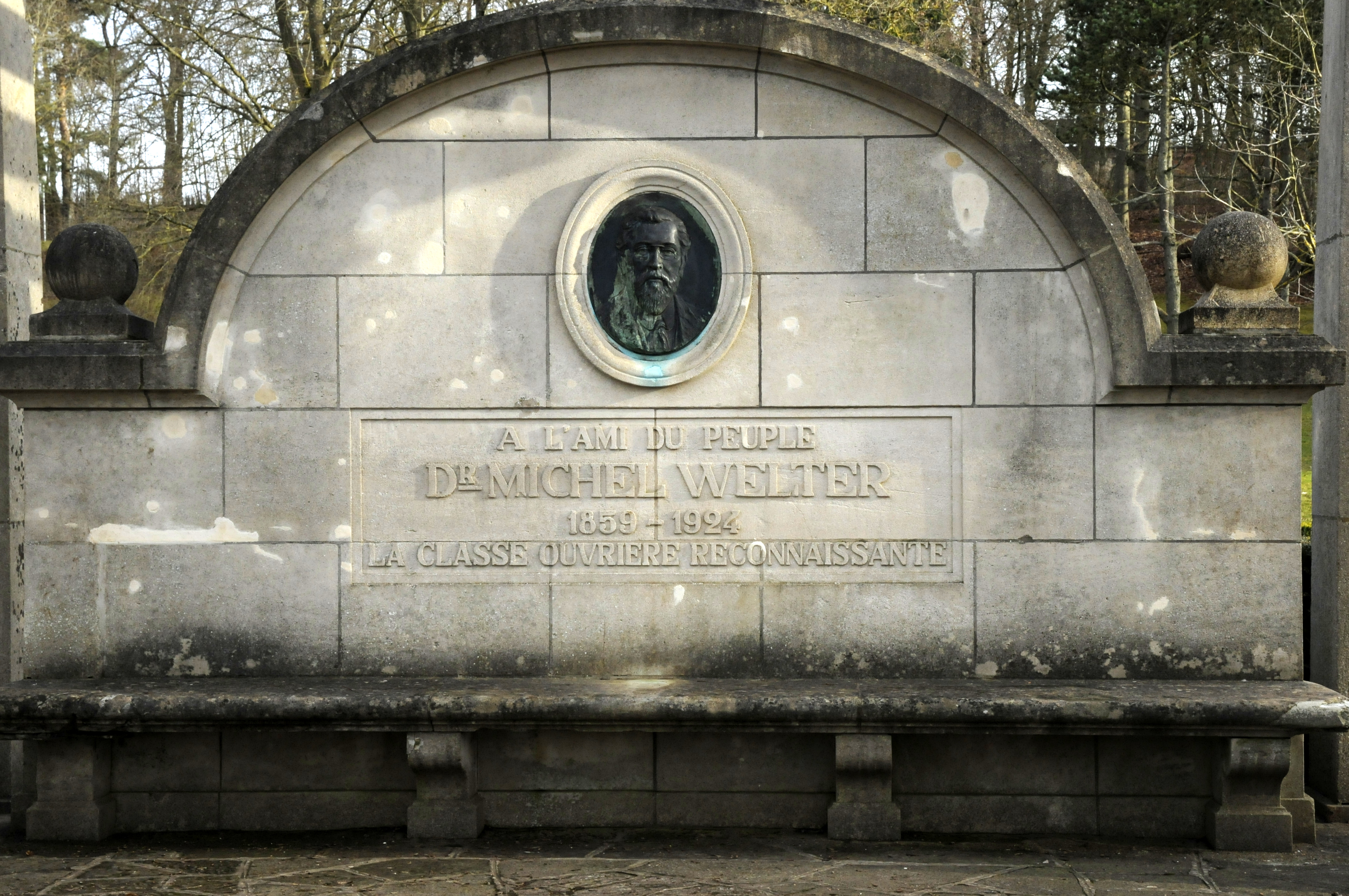 Michel Welter-Memorial, Gaalgebierg, Esch-sur-Alzette